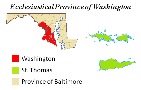 The Ecclesiastical Province of Washington encompasses the District of Columbia, five counties in the state of Maryland and the United States Virgin Islands.